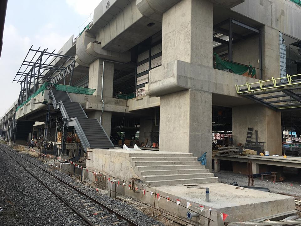 Rangsit Railway Station, Prathum Thani in 2017.